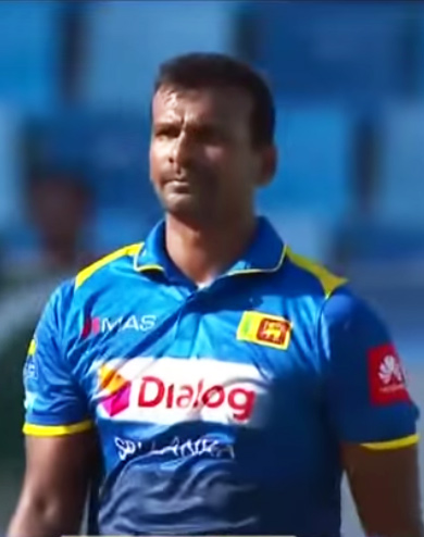 Lahiru Gamage bowling during the cricket match, Sri Lanka vs Pakistan, October 2017